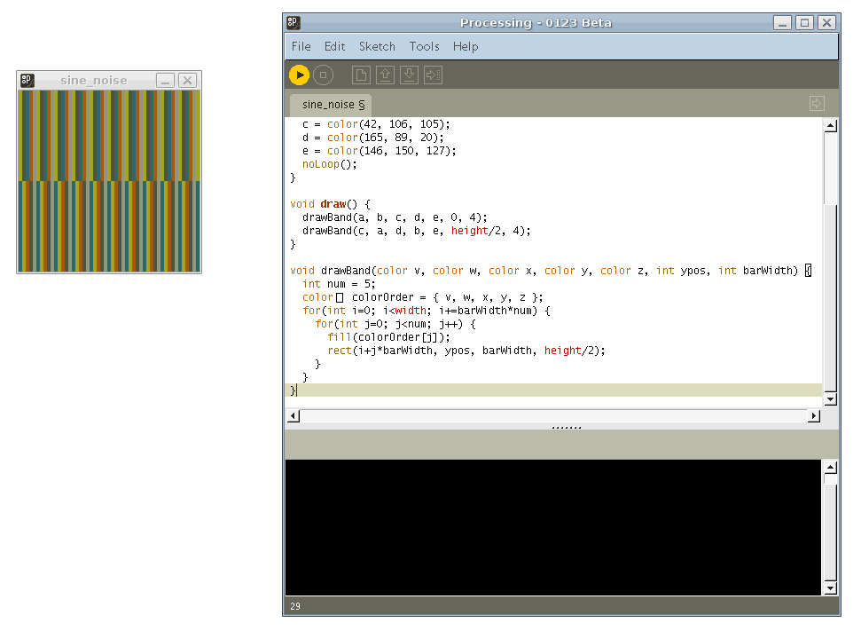 Processing IDE.